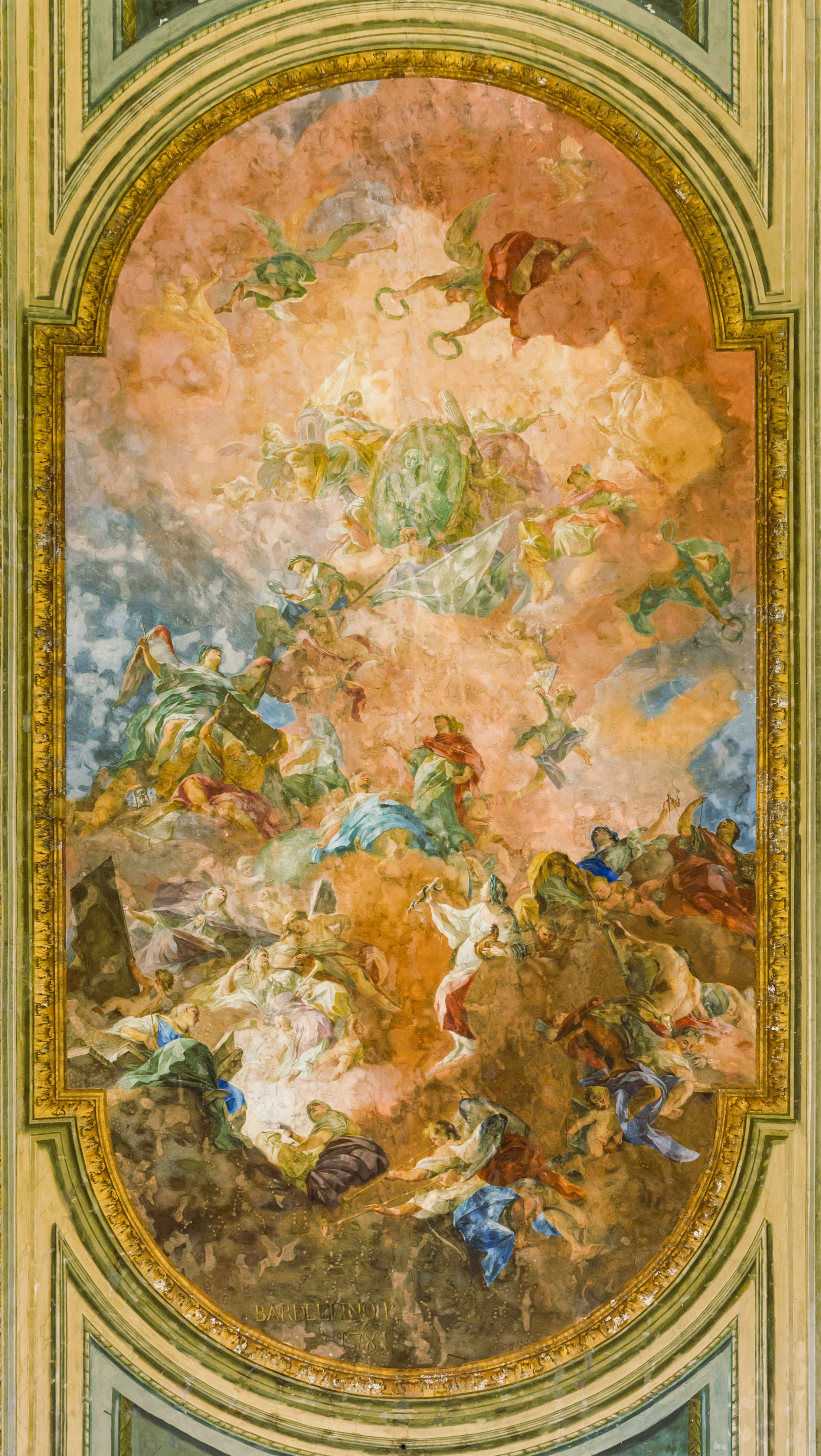 Central fresco of the ceiling of the Palazzo deli Studi 's Salone della Meridiana (Naples archaeological Museum), by Bardellino, 1781, restored 1904. Naples, Italy.